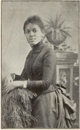 Lucy Ann Henry Coles missionary to Liberia born 1865 guess date as 1895